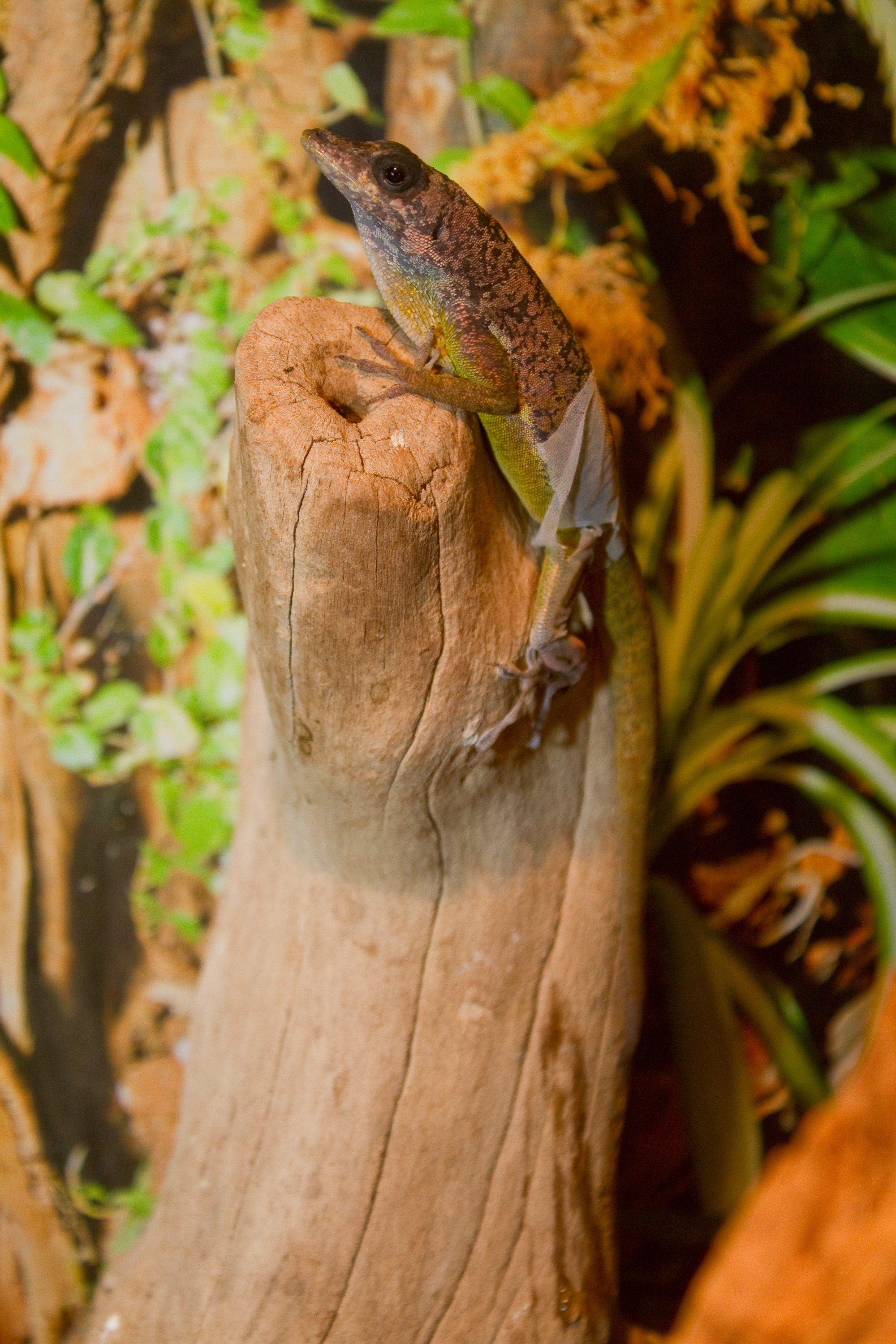 Anolis roquet. In captivity in Somerset Village, Bermuda.